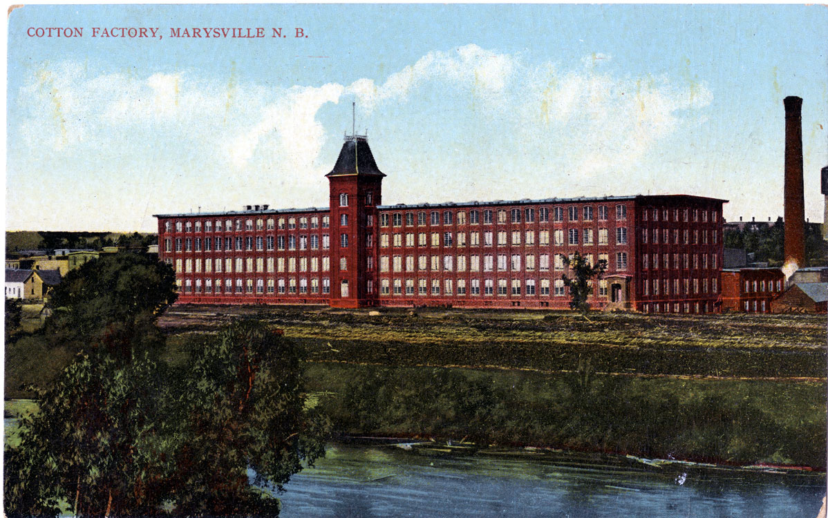 A postcard showing the cotton factory at Marysville New Brunswick. Created between 1910 and 1916.